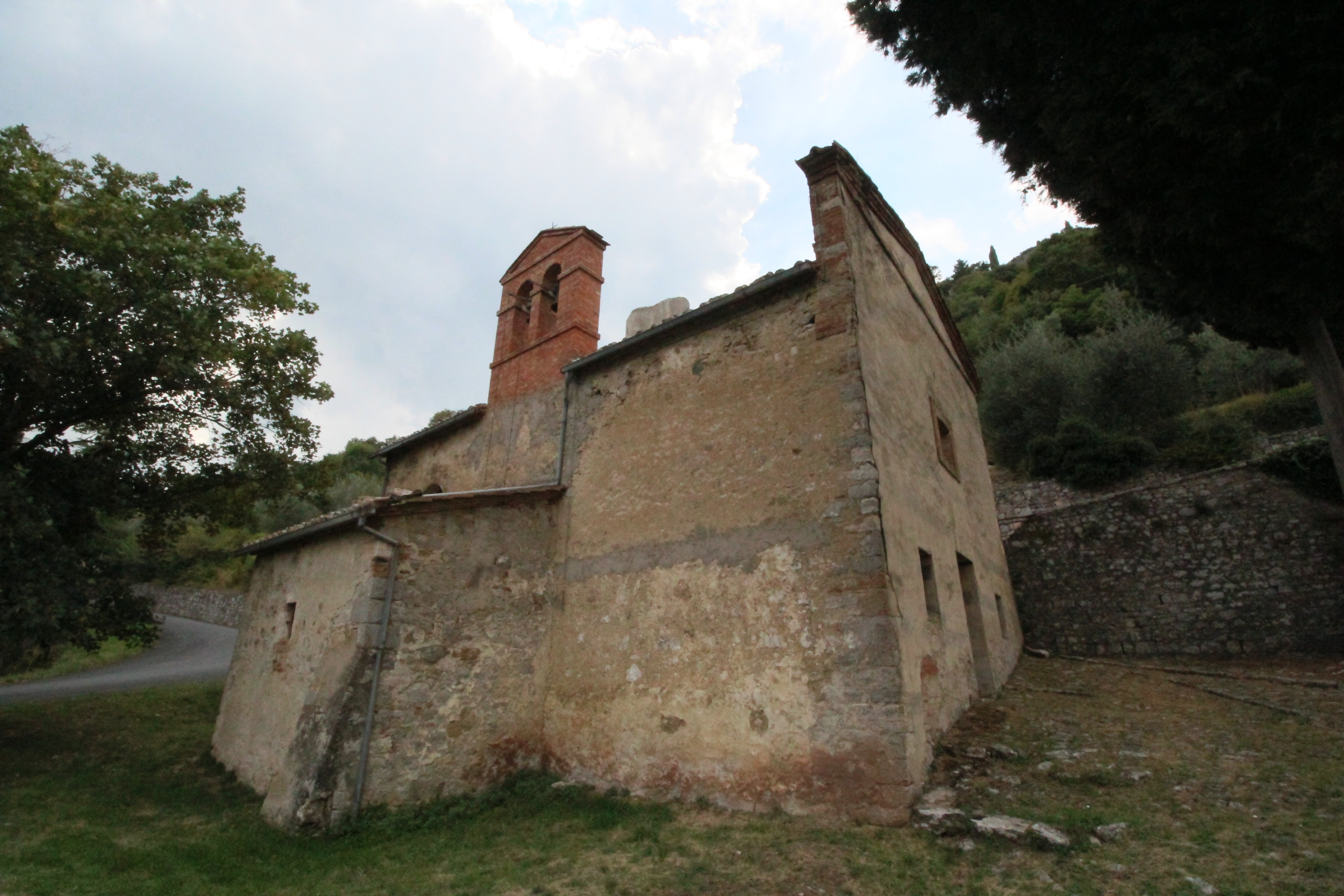 Church Chiesa delle Grazie di Manno, also called Madonna delle Grazie di Manno, Rocca d’Orcia, hamlet of Castiglione d’Orcia, Province of Siena, Tuscany, Italy (above the roof the Castle Rocca d’Orcia)